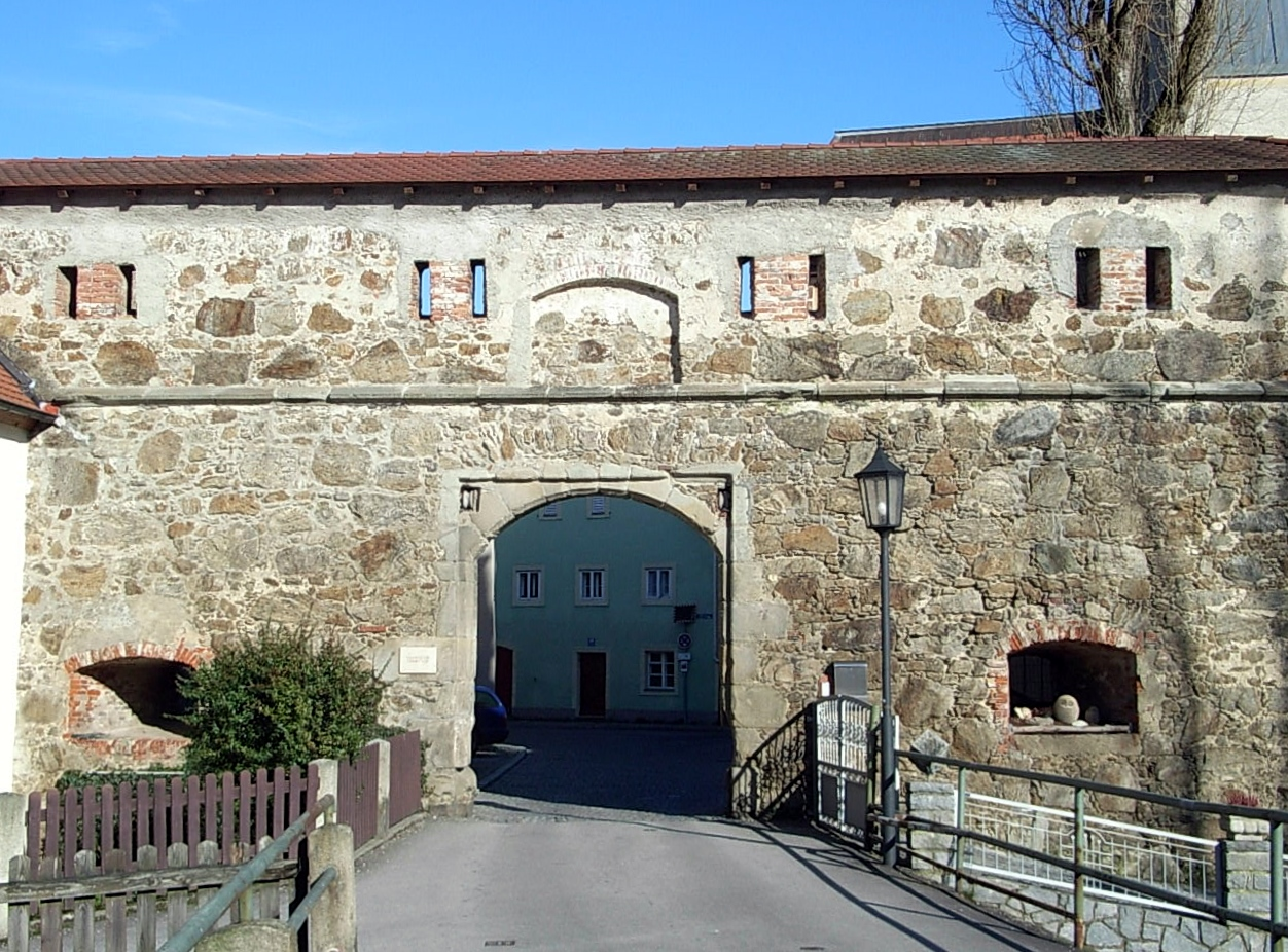 Severinstor Passau